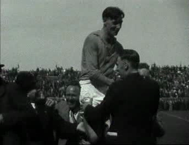 The final of the football championship of the Netherlands in Rotterdam. SHOTS: - teh match Feyenoord - Ajax. Result 0-2; - team captain of Ajax, Wim Anderiesen, is carried in triumph off the field; - the Ajax team.